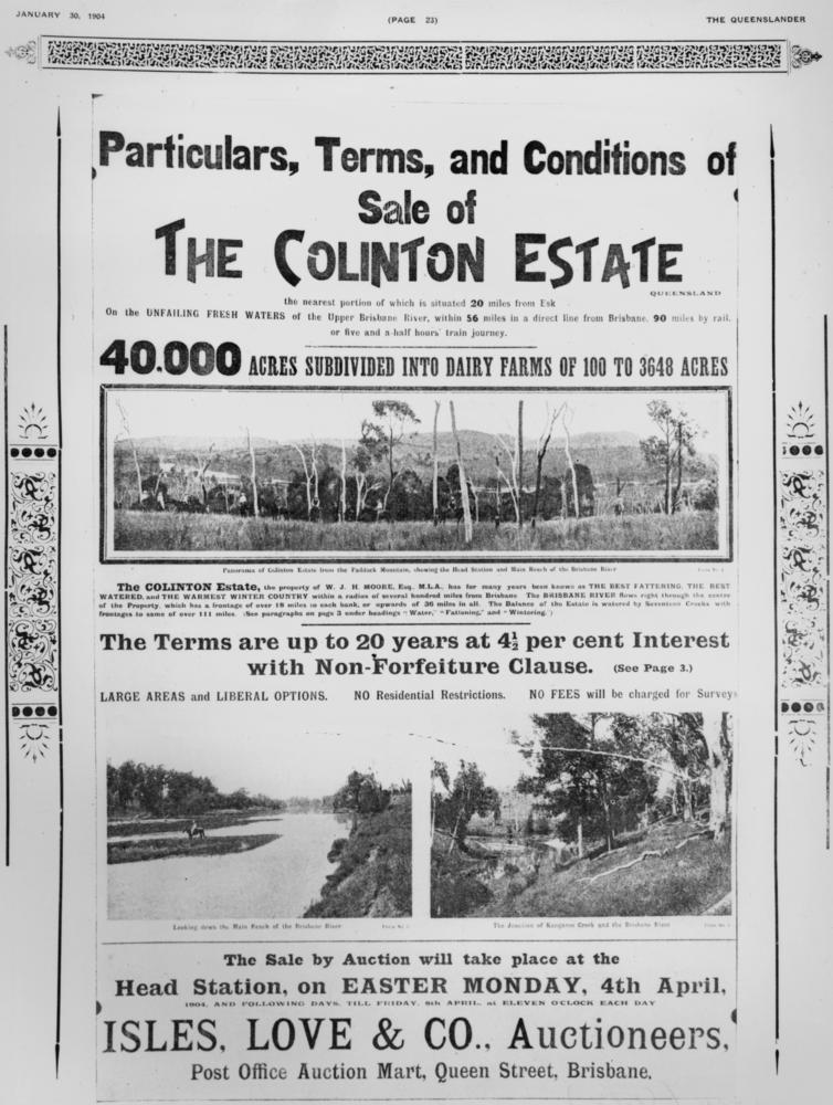 Advertisement for the sale of the Colinton Estate, Colinton, ca. 1904. The advertisement includes a number of views of the Colinton Estate whichwas owned by W. J. H. Moore at the time. (Description supplied with photograph.).